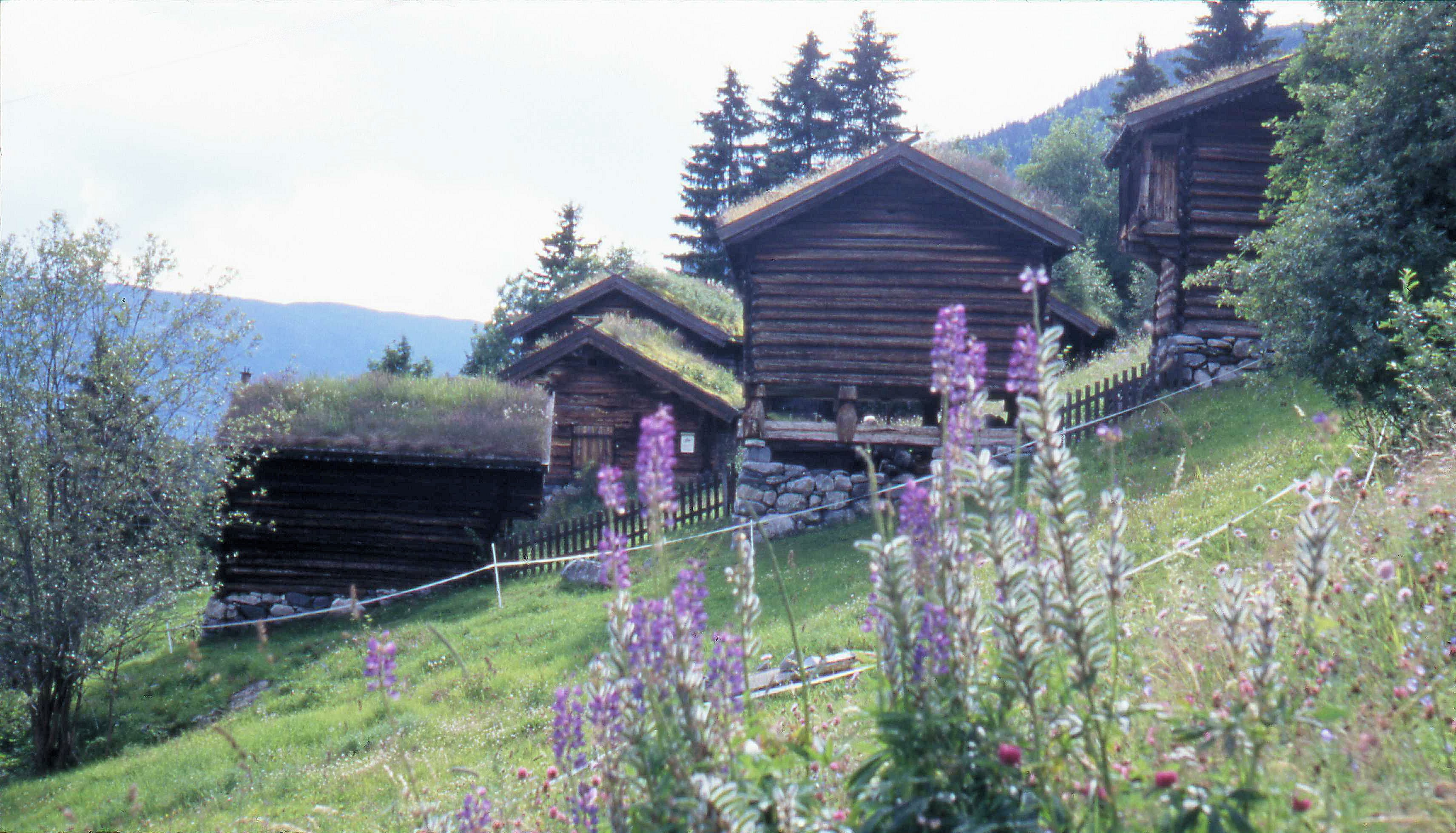 Turfed roof on timberhouses in the rural district. Ål in Hallingdal, Buskeud County, Norway